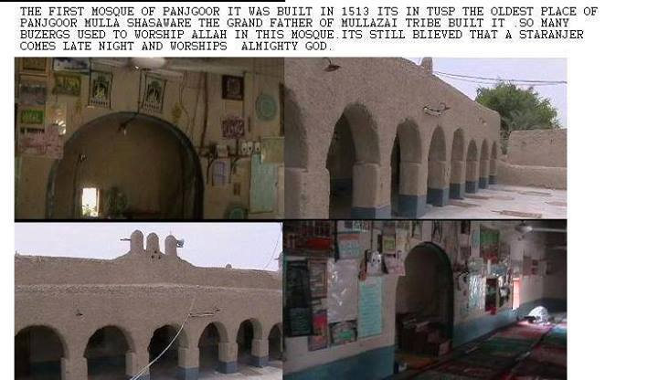 The frst Mosque Of Panjgur Built In 1513 By Mulla Shahsawar Mullazai